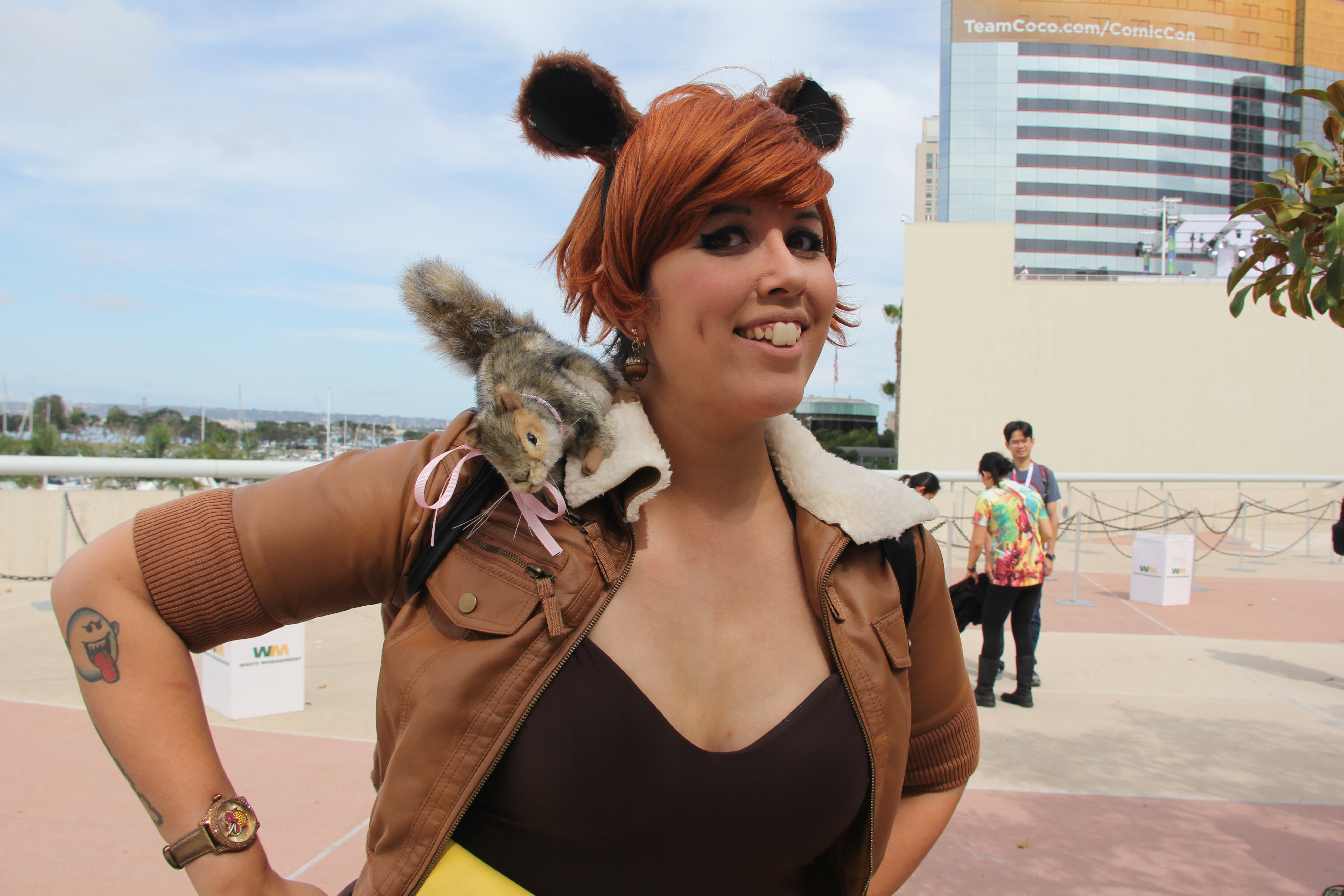 Cosplay at San Diego Comic Con 2015.